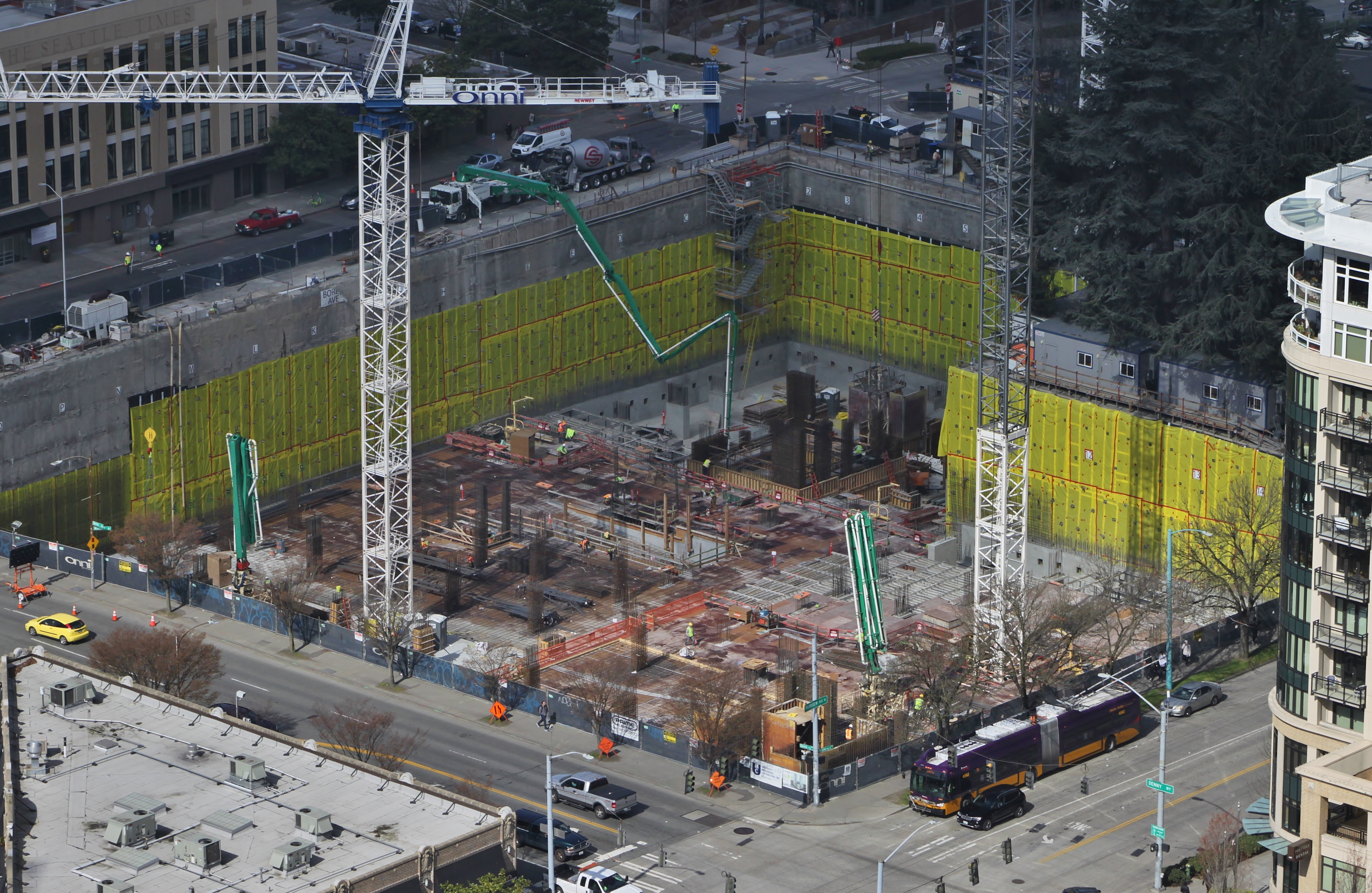 Construction of 1120 Denny Way, a residential high-rise complex, seen from AMLI Arc